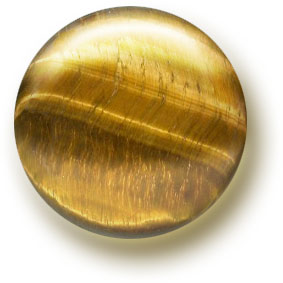 A cabochon of tiger's eye